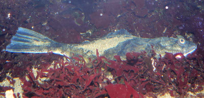 Photo of Parophrys vetulus (English sole) at the Vancouver Aquarium